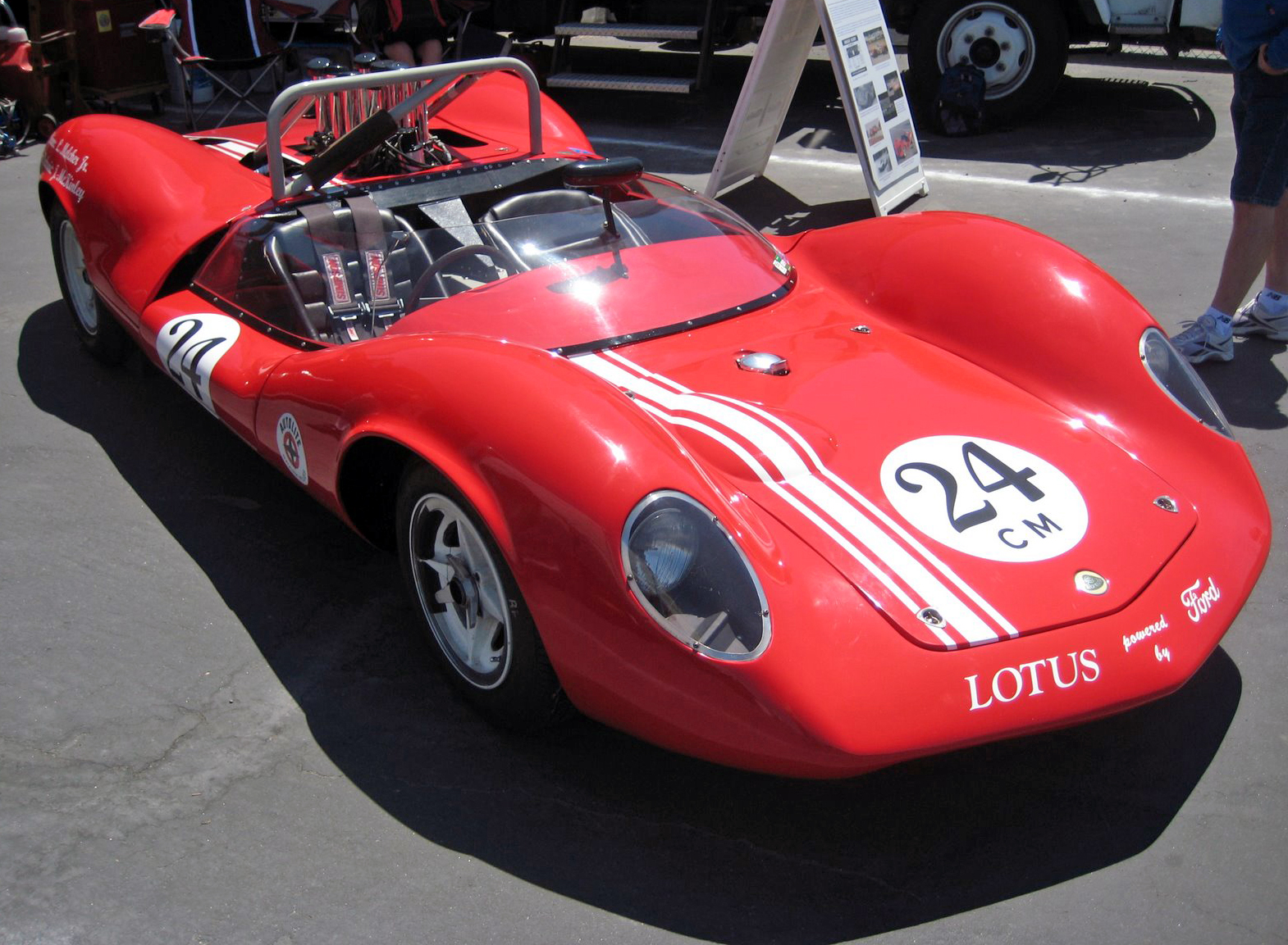 1964 Lotus 30 S.1 no 30/L/8 with a 4.7 liter Ford V8 engine (289) at the Laguna Seca Historics, 2009.